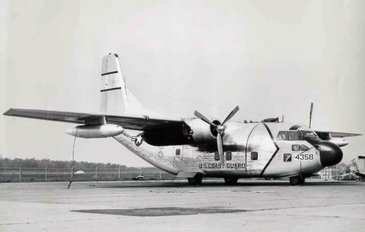 A U.S. Coast Guard Fairchild HC-123B Provider (serial 4358, USAF s/n 56-4358) from ARSC Elizabeth City, North Carolina (USA), on 16 May 1961. This aircraft was aquired by the U.S. Coast Guard on 11 January 1959 and returned to the USAF on 31 March 1972. Later it was sold to Thailand.